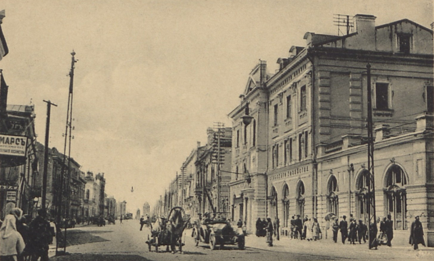 Minsk city, Zaharevskaya street, Minsk agricultural society house, photoed 1918 AD, Russian empire